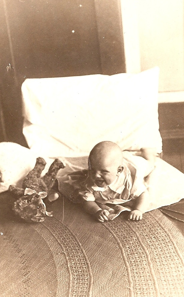 VADM Henry C. Mustin, 1934